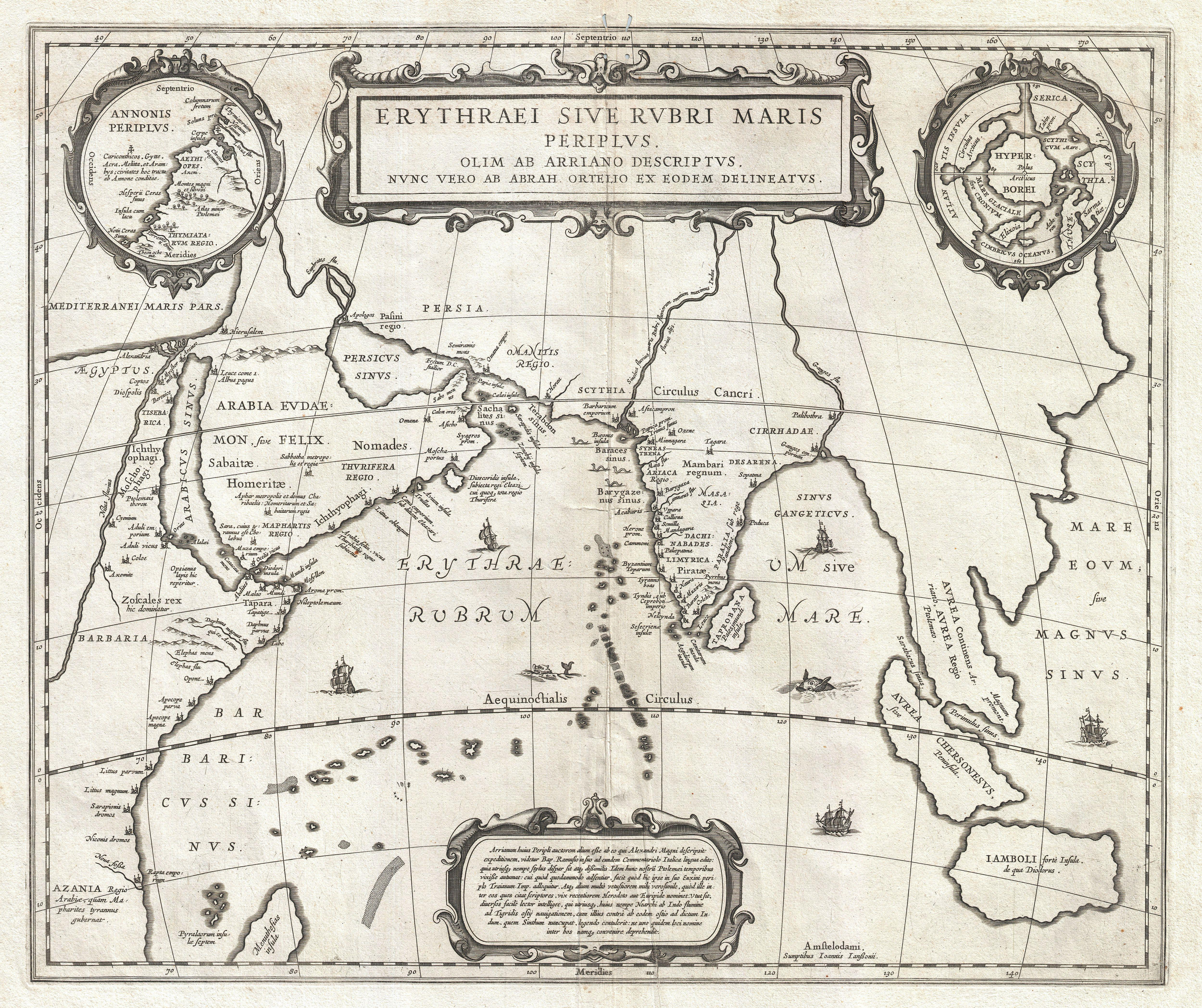 An unusual and attractive 1658 map of the Indian Ocean, or Erythraean Sea, as it was in antiquity. Composed by Jan Jansson after a similar 1597 map published by A. Ortelius in his Parergon . Covers from Egypt and the Nile valley eastward past Arabia and India, to Southeast Asia and Java. Cartographically, India, Arabia, and Africa roughly correspond to the conventions of the period. Southeast Asia is less recognizable, but the Malay Peninsula, Sumatra, and Java are clearly noted. Most of the place names used throughout are derived from Ptolemy, who himself based his description of the region heavily on records from Alexander the Great's conquests. Two smaller maps in the upper left and right quadrants are of exceptional interest. The upper left chart shows northwestern Africa and is titled Annonis Periplus. This is a reference to the legendary expeditions of the Carthaginian King Hanno, said to have been the first to access the Indian Ocean by sailing around the southern tip of Africa. Incidentally, en route, he is also said to have been the first to tame a lion. The upper right chart shows the northern polar regions as they were perceived at the time. A landmass covering the polar ice cap is indentified as Hyperborea. To the left of this, roughly where North America rests today, the island of Atlantis appears; while Scythia, Europe (Thule) and Asia are on the right. Greenland and possibly Iceland appear at the bottom. This map is intended to point out the possibility of a Northeast Passage to Asia, which was at the time being actively sought after by Dutch, English, and Russian navigators. Both smaller maps, the primary title area at top center, and an Latin explanation for the map at bottom center, are surrounded by baroque strapwork style borders. This remarkable map was published in volume six, the Orbis Antiquus , of Jan Jansson's Novus Atlas .